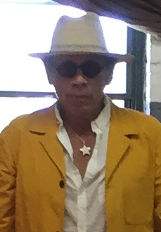 Street artist Marcos Raya at his studio in Back of the Yards in New City, Chicago